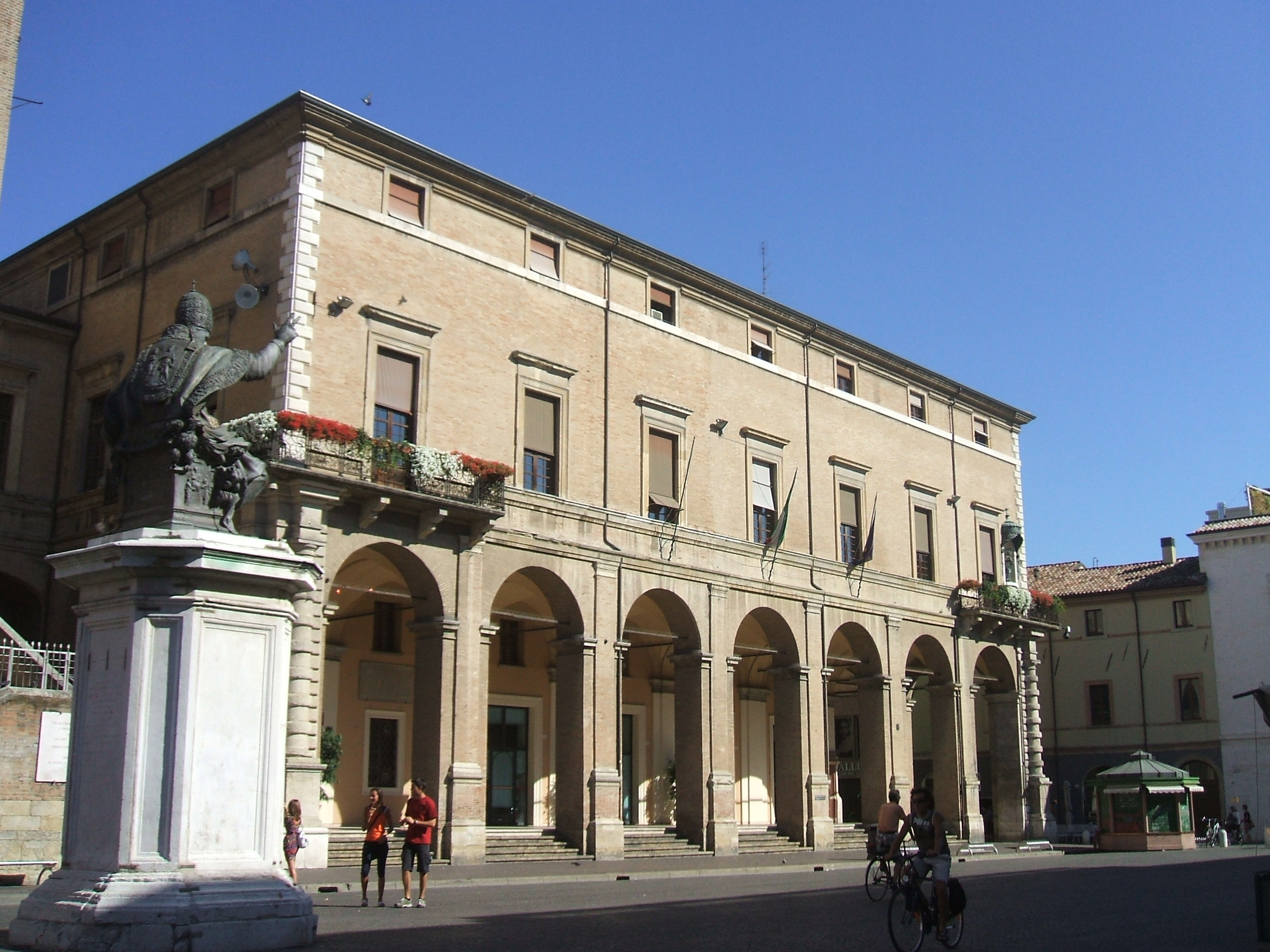 Palazzo Garampi in Rimini, Italy